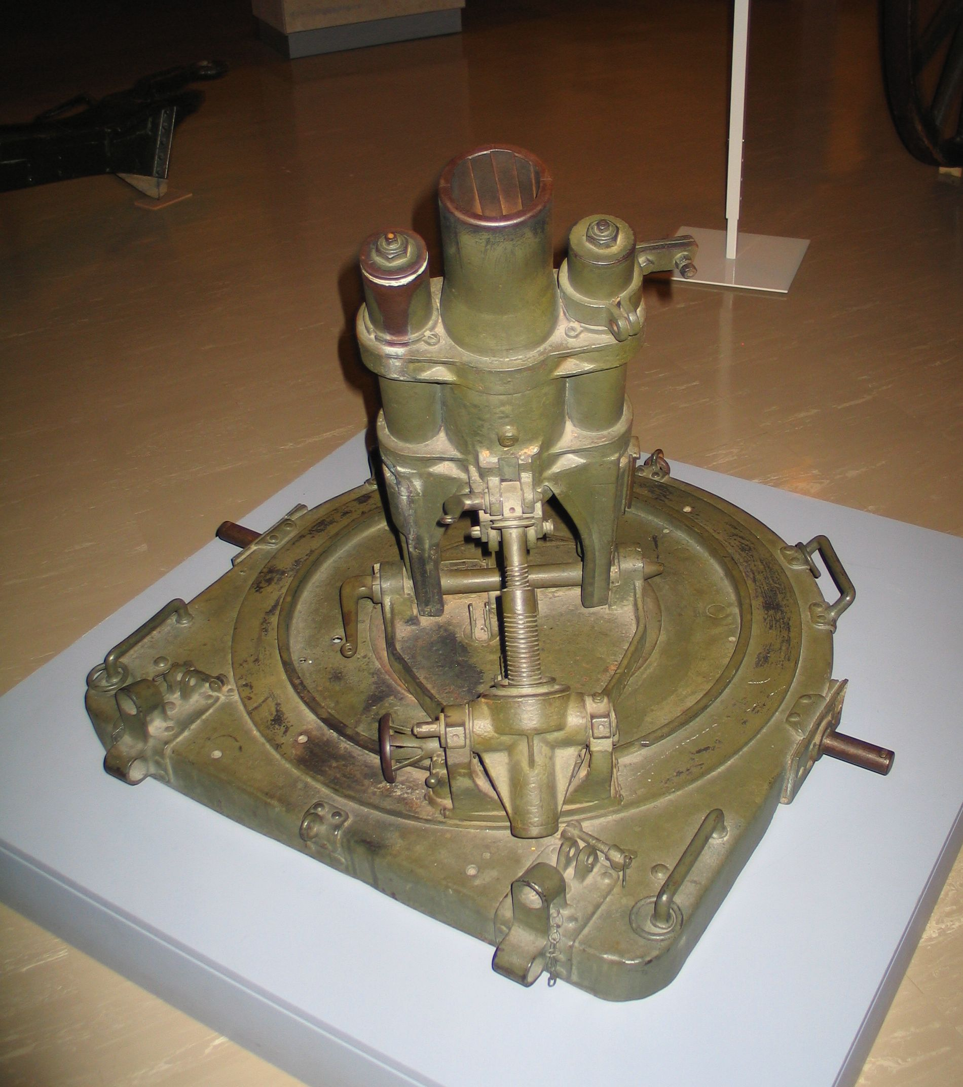 German 7,58 cm Minenwerfer displayed in Australian War Memorial, Canberra, Australia. Australian War Memorial exhibit ID Number: RELAWM05070